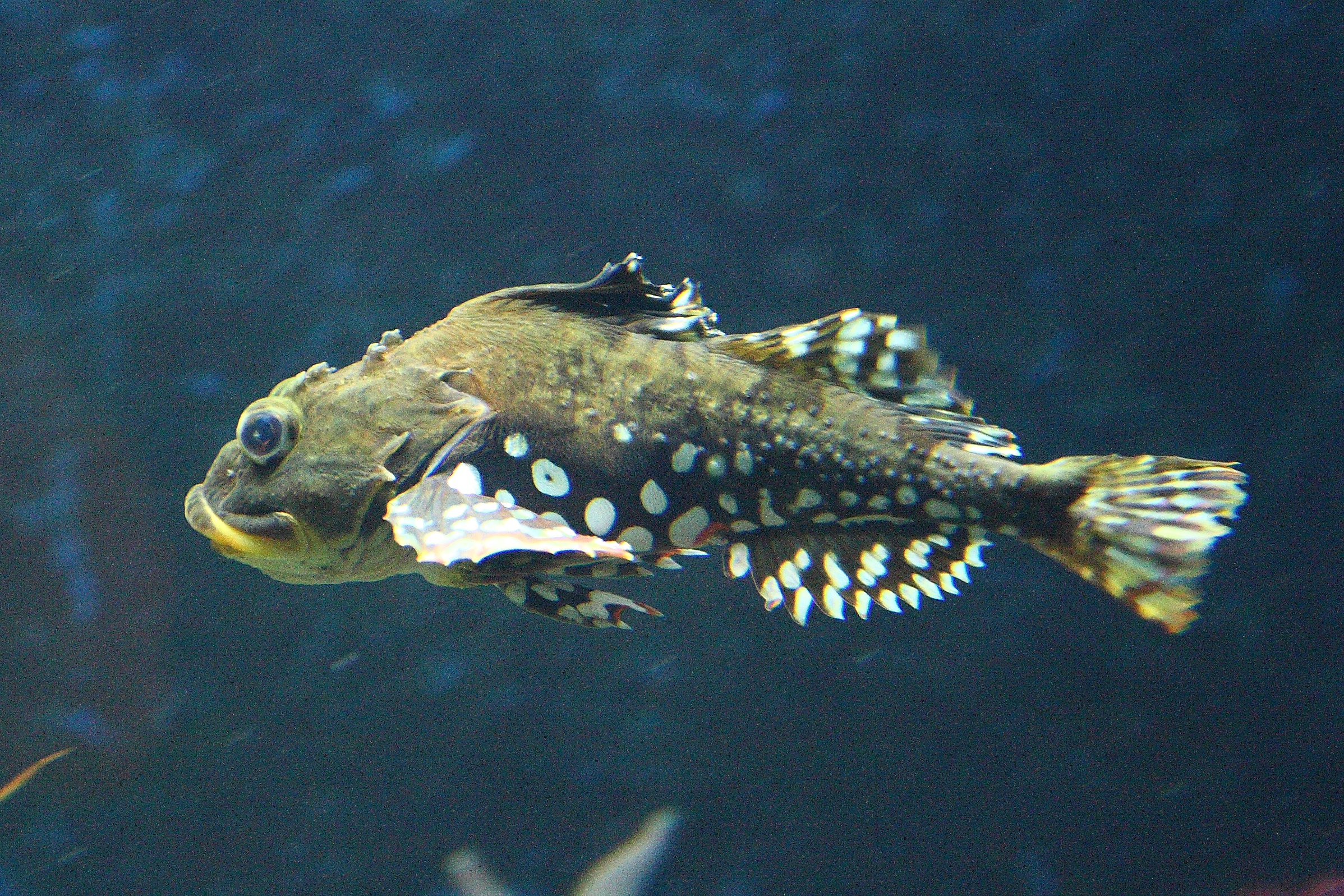 Myoxocephalus scorpius, Aquarium du Québec